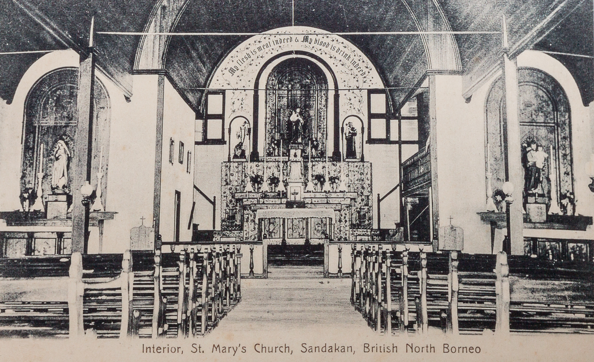 Sandakan, Sabah: Interior view of the pre-war church St. Mary's.